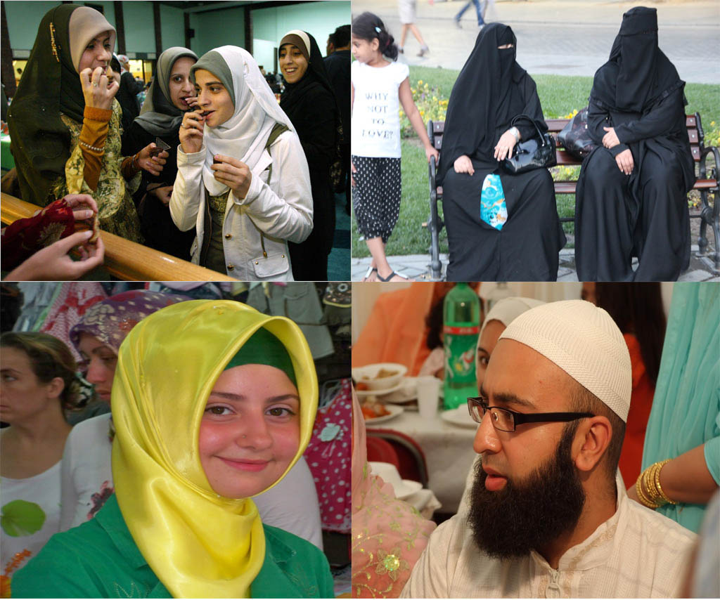 A collage on the Islamic principle of hijab